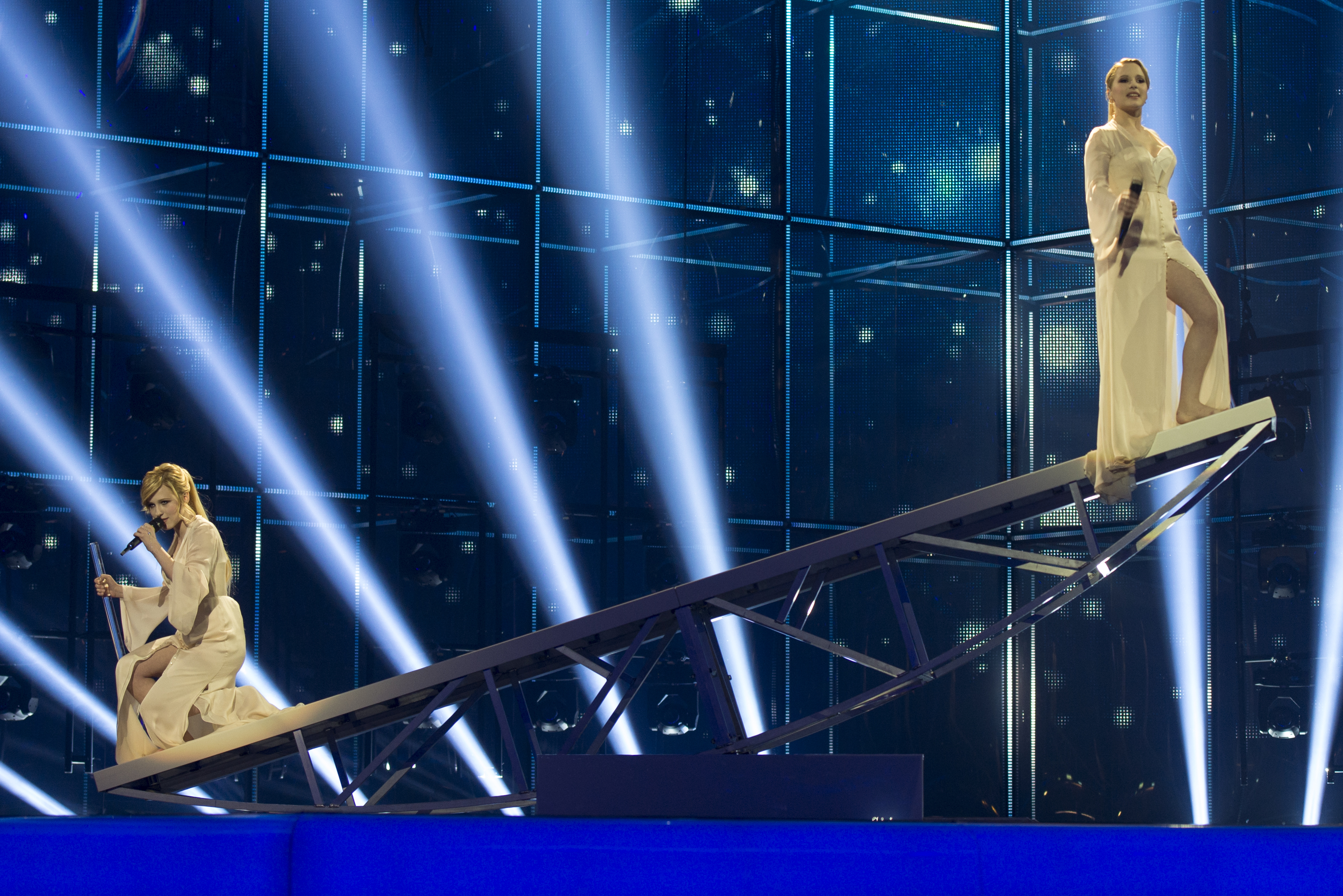 The Tolmachevy Twins representing Russia with the song "Shine" during the first dress rehearsal of the first semi final of the Eurovision Song Contest 2014 Copenhagen. (Help translate this text)